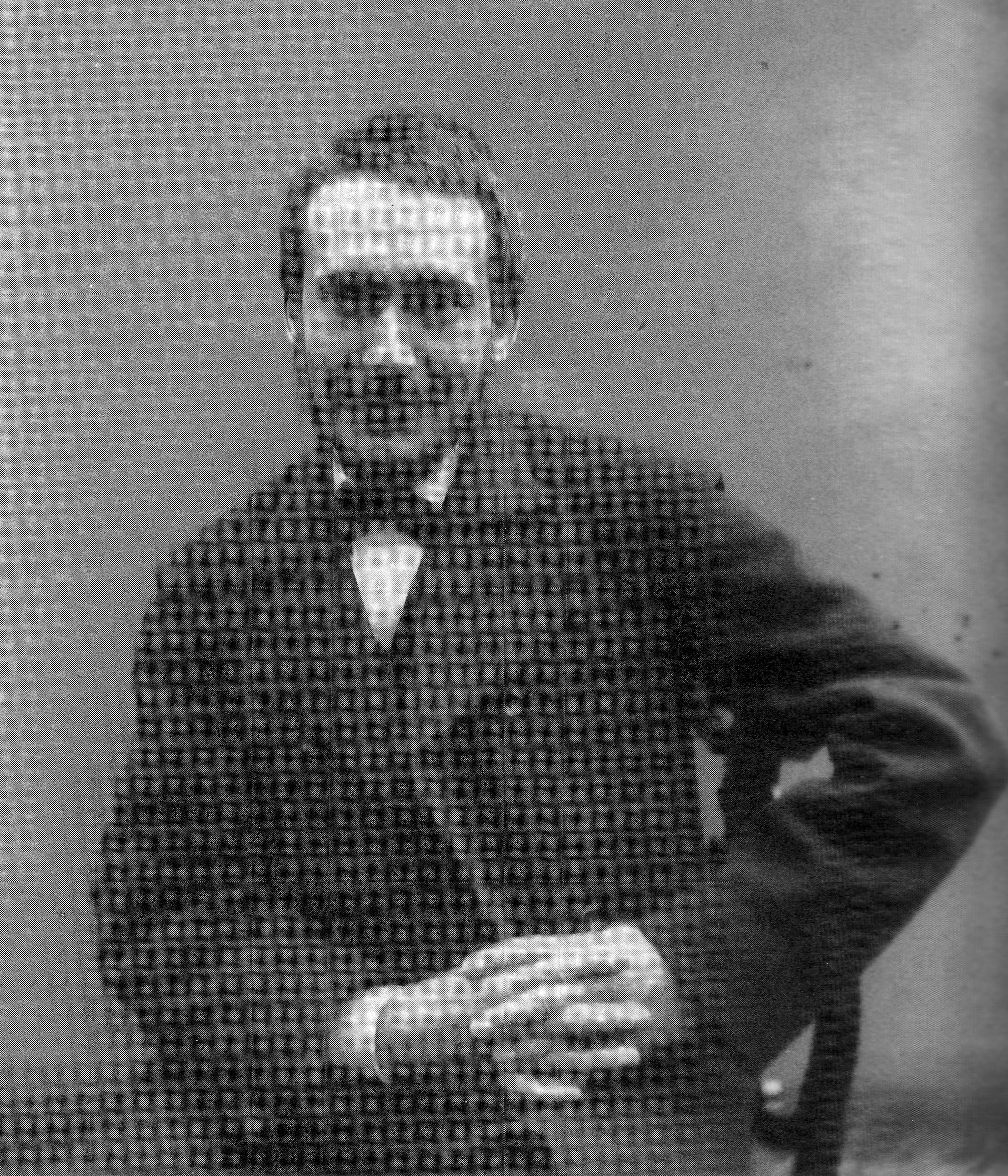 Thomas Eakins at age thirty-five to forty in a heavy wool jacket